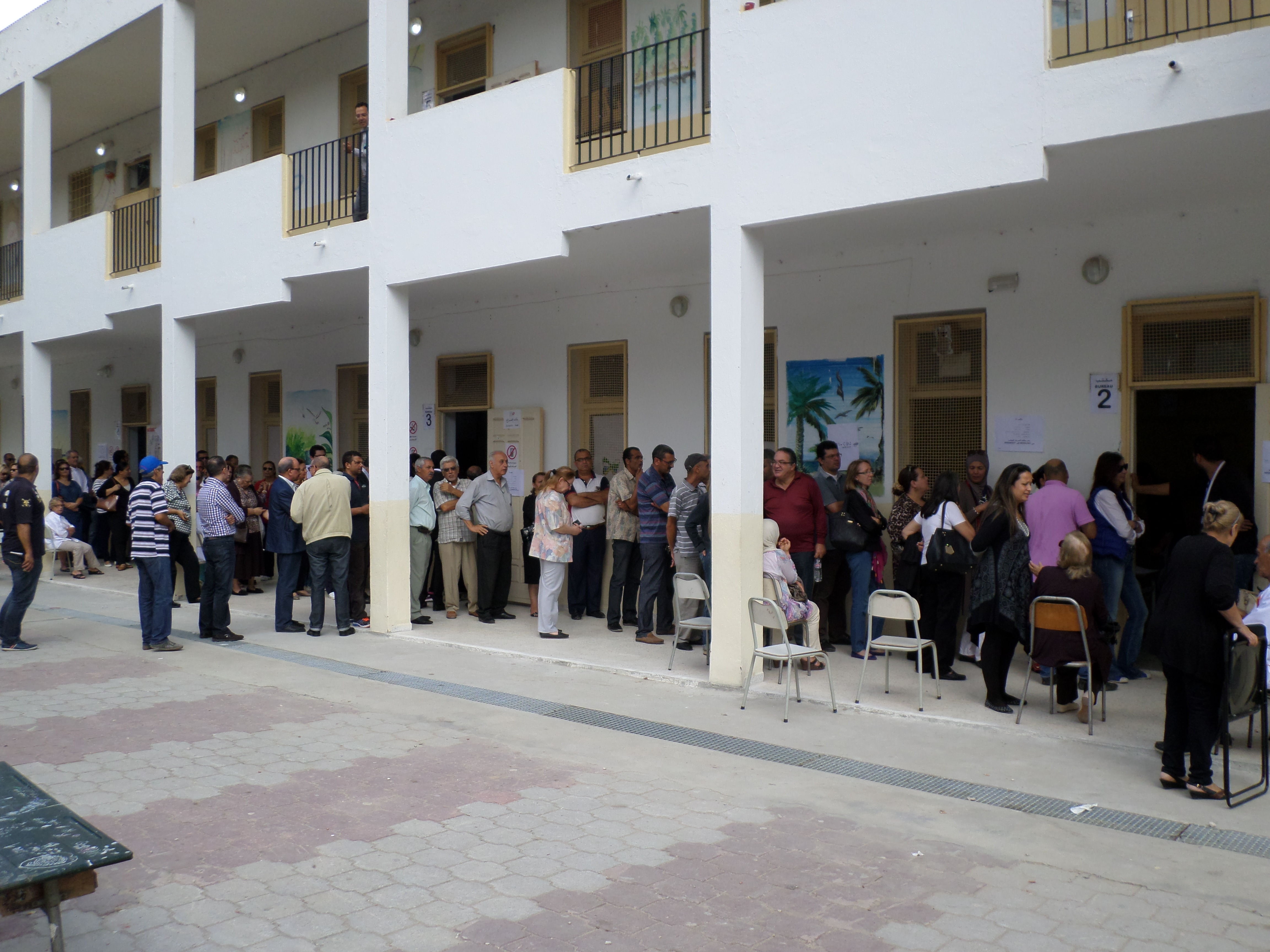 Tunisian electors waiting to vote in Menzah 5 school, Ariana